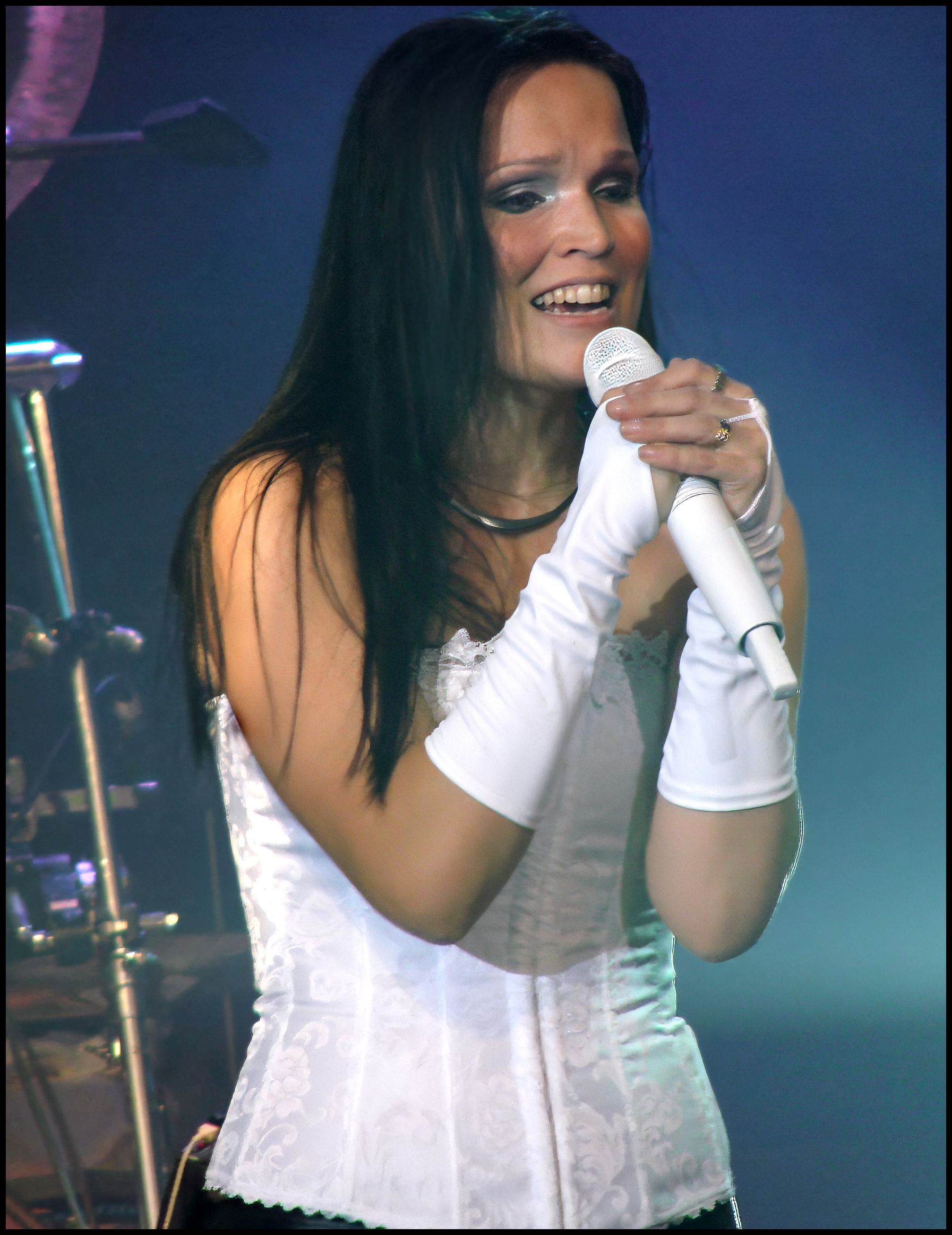 Tarja Turunen singing at the Obras Stadium in Buenos Aires, Argentina, on September 6, 2008. This was the last show of the Winter Storm tour on America.